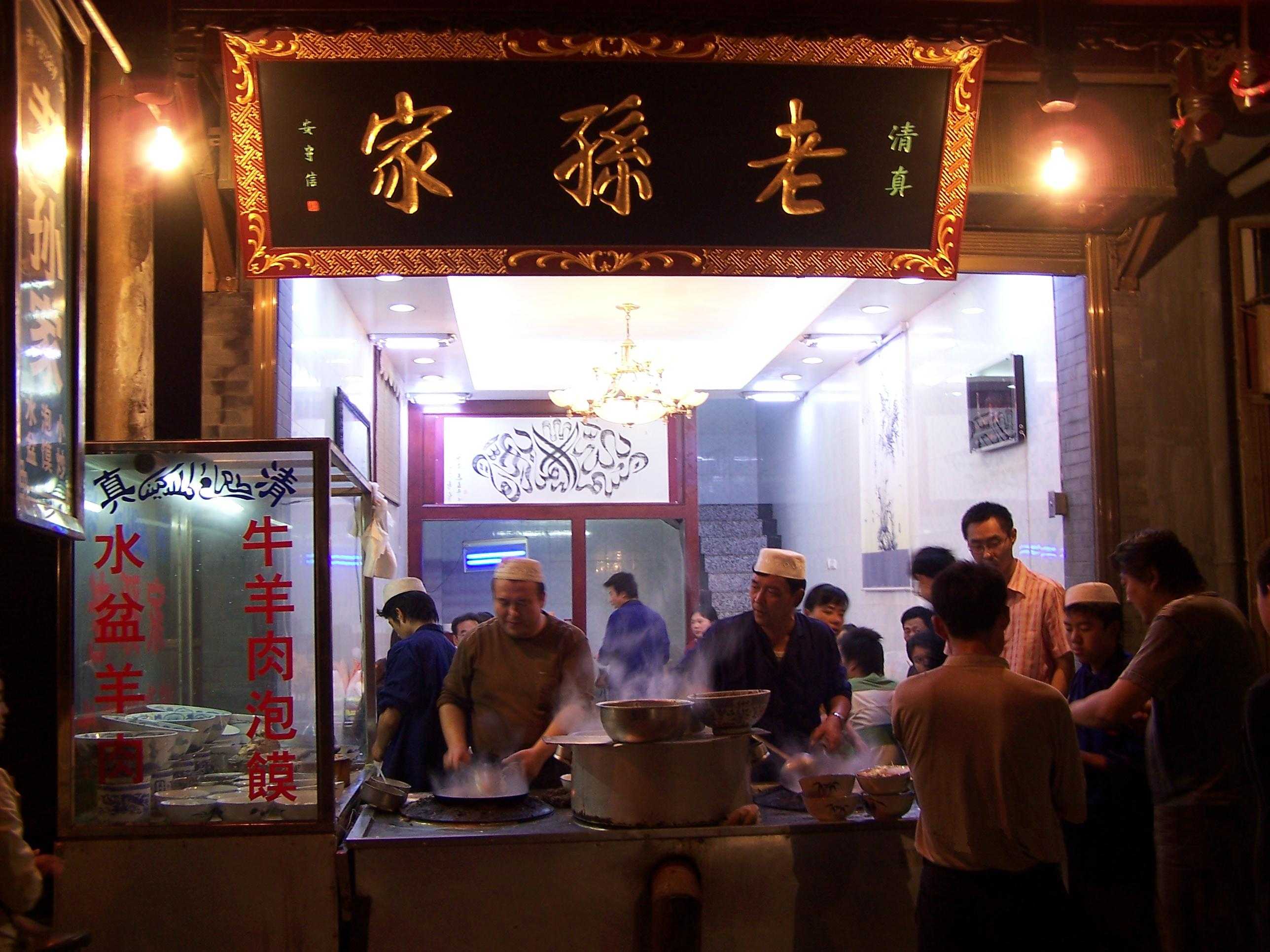 Muslin restaurant in Xi'an, China